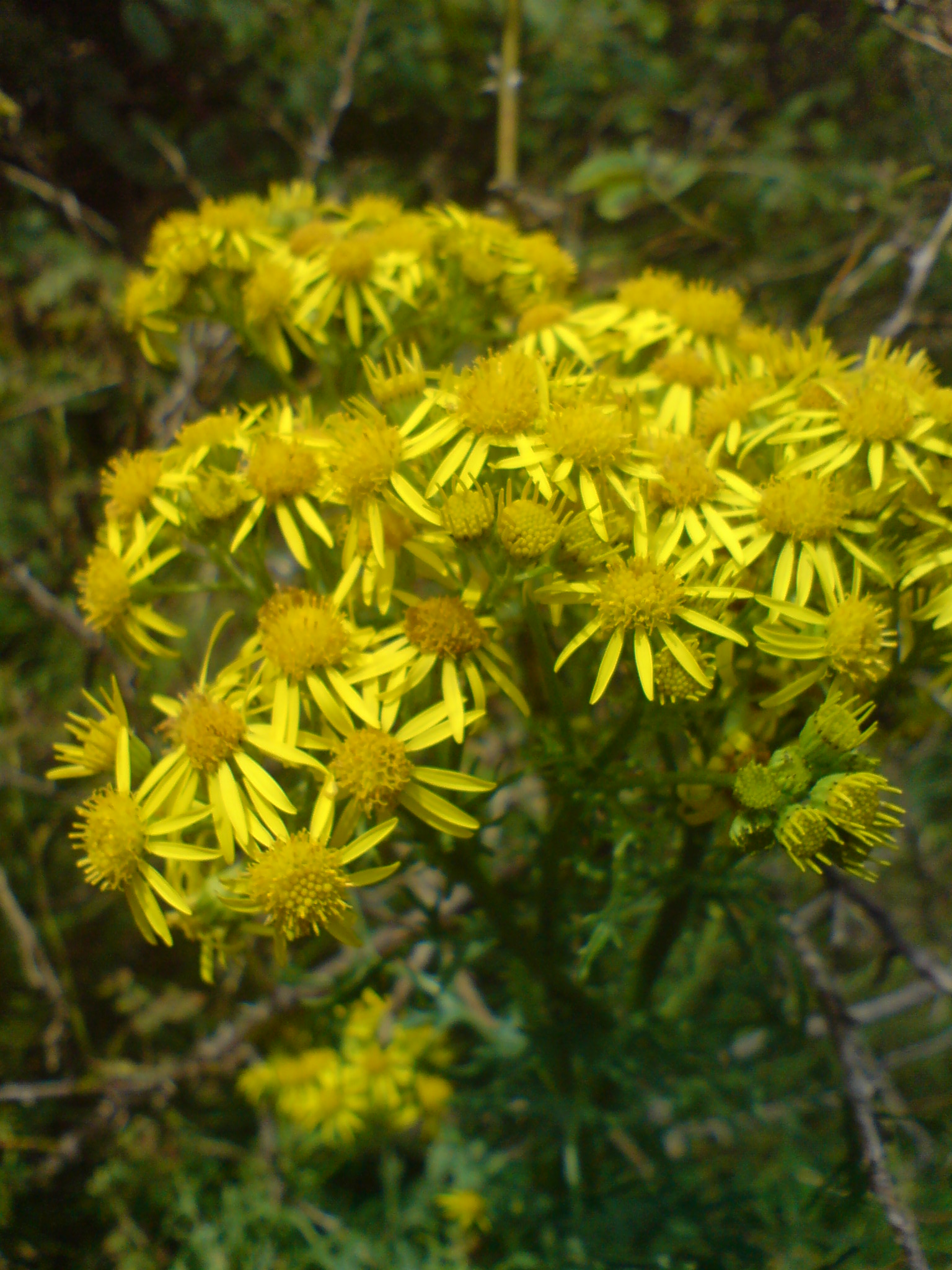 A small Ragwort (Jacobaea vulgaris) plant in peak flowering period